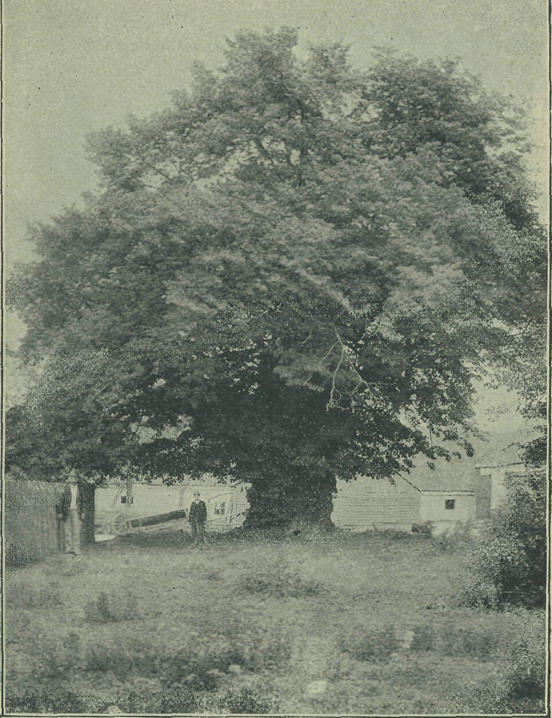 Lime tree of Jan Zizka, memorable tree (now extinct) located in Nejepin near Chotebor, Czech republic. Historical photo taken by Jan Vilim.